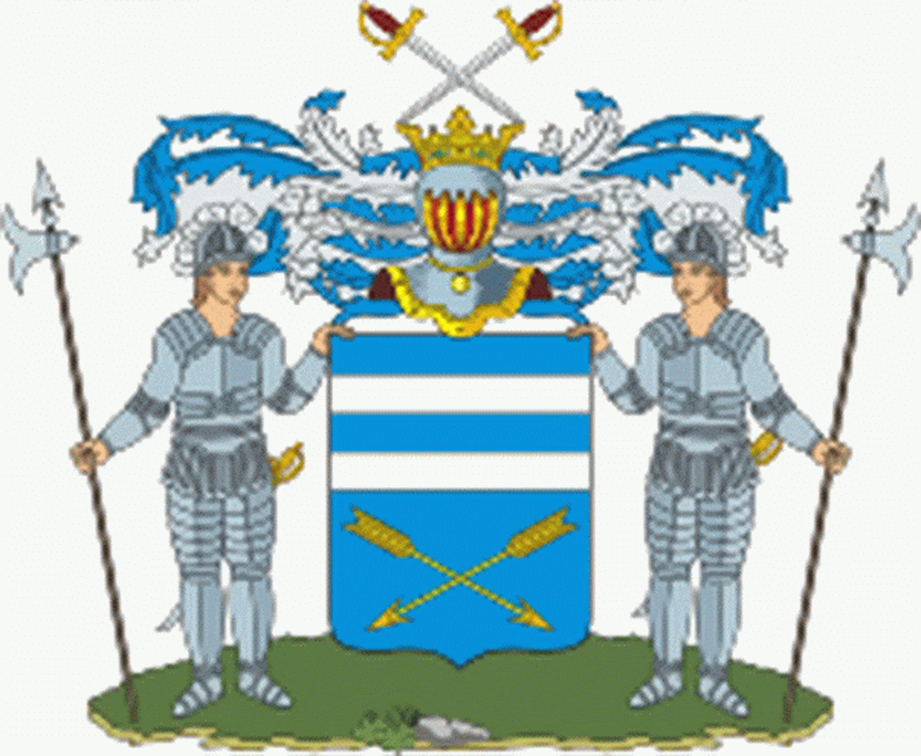 Coat of Arms of family Semyonov